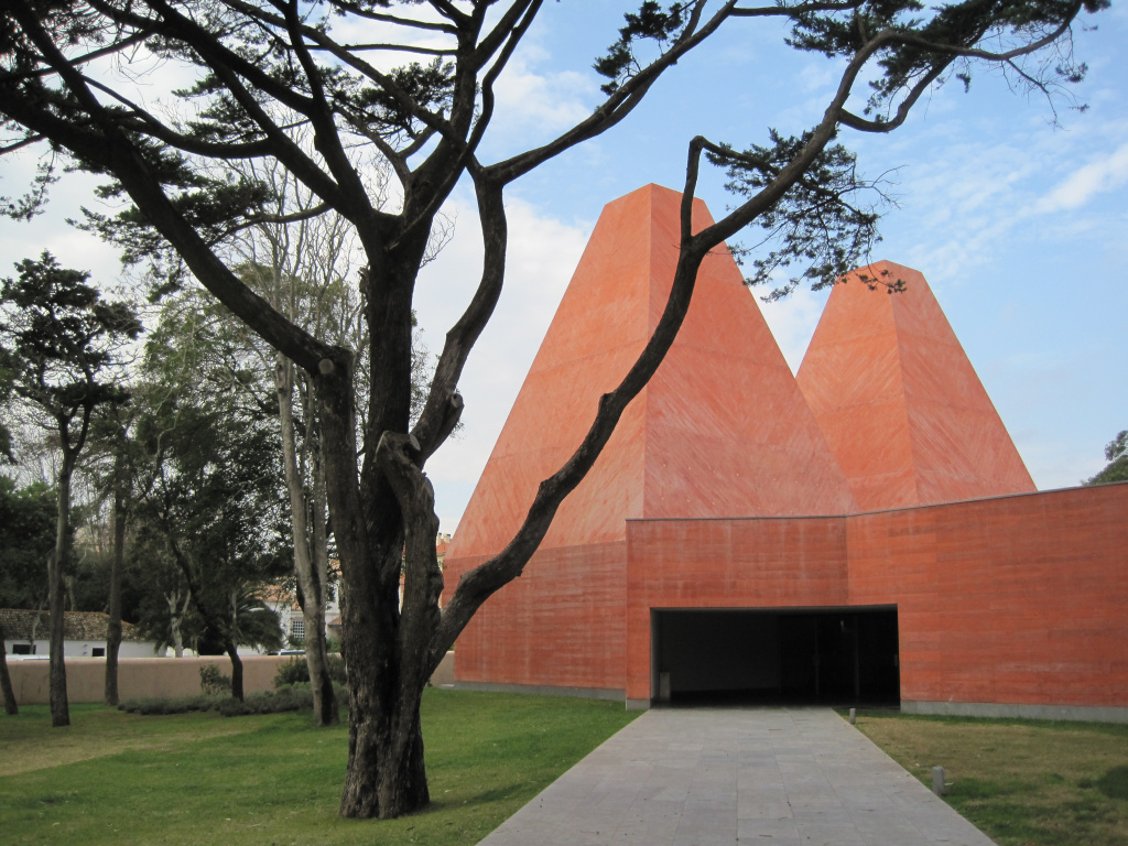 The Paula Rego Museum (formally known as the "House of Stories Paula Rego") was built as a home to an extensive collection of works by Paula Rego and her late husband Victor Willig. Rego herself selected Eduardo Souto de Moura as the architect of the project. The museum, which opened in 2009, is located in the seaside town of Cascais, about an hour from Lisbon by commuter train. Most of the exterior walls have no windows. The entrance is just a dark opening in the facade - you cannot see the glass doors until you get close to them. There is no signage - you are instinctively drawn to that dark opening and you know you are in for a great adventure...